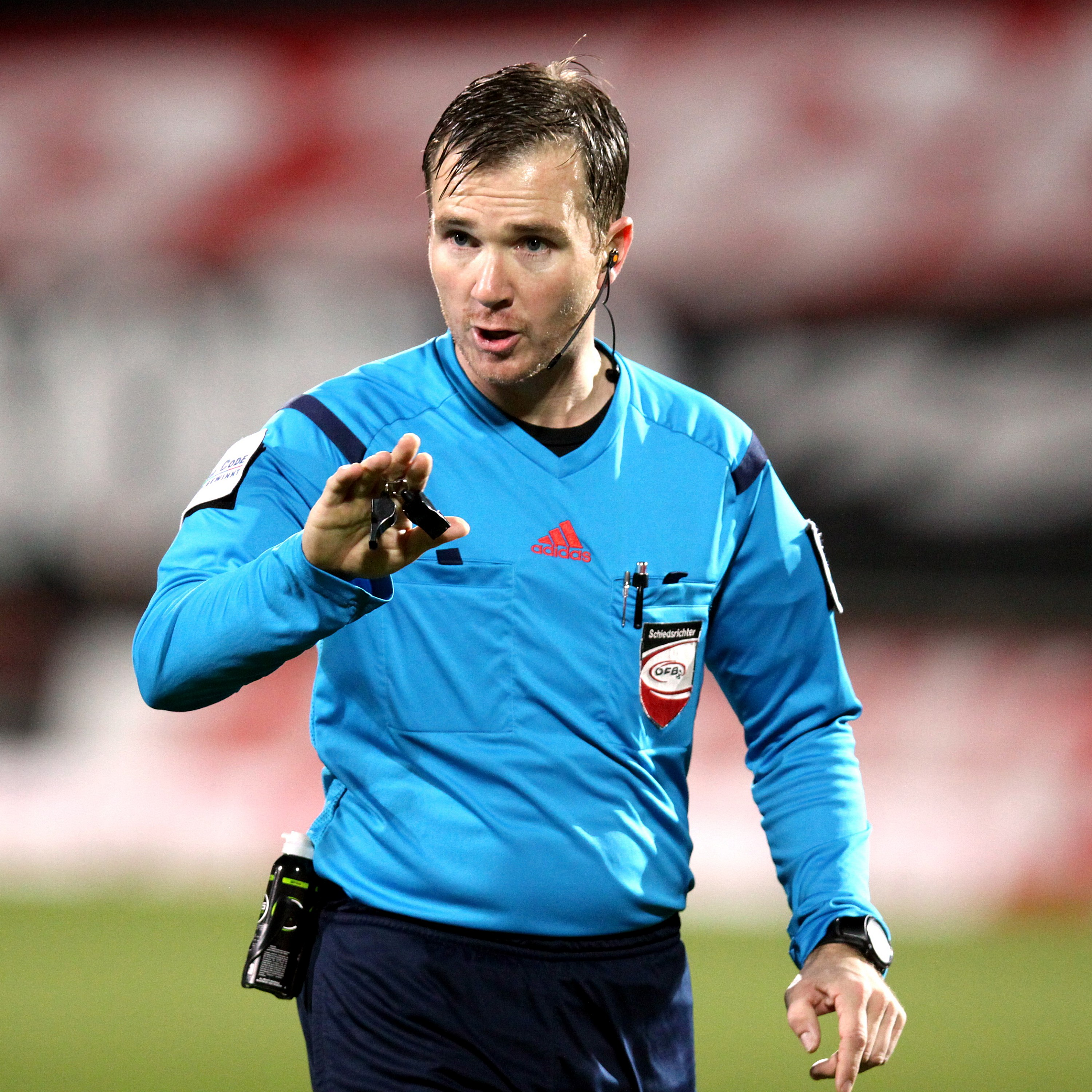 Match of the Austrian Football Bundesliga – FC Admira Wacker Mödling (red shirts) vs. SV Mattersburg (green-white shirts) 1-1 (1-1) on 2015-12-12 in Bundesstadion Sudstadt – The photo shows referee Dieter Muckenhammer.